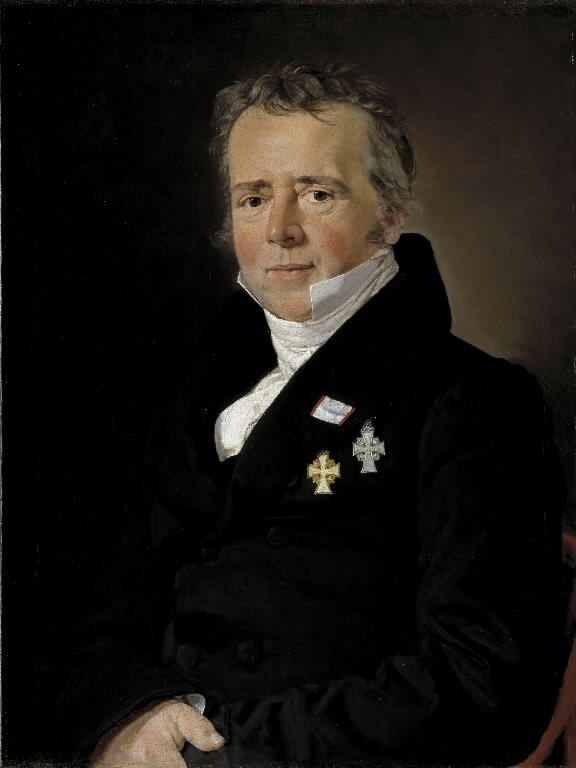 Portrait of the phycisist Hans Christian Ørsted